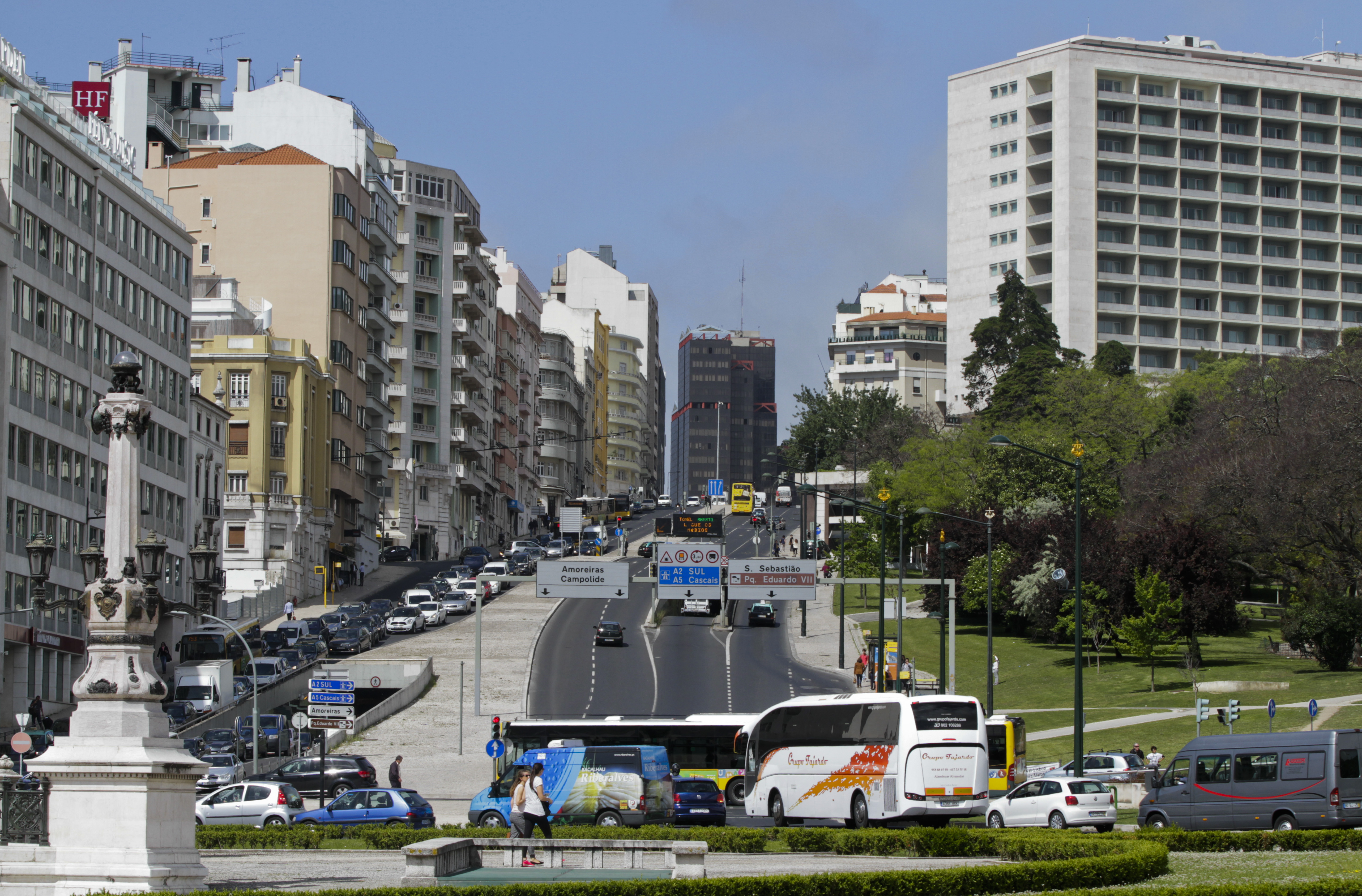 View from Praça do Marques de Pombal to Amoreiras with Avenida Joaquim António de Aguiar, Lisbon